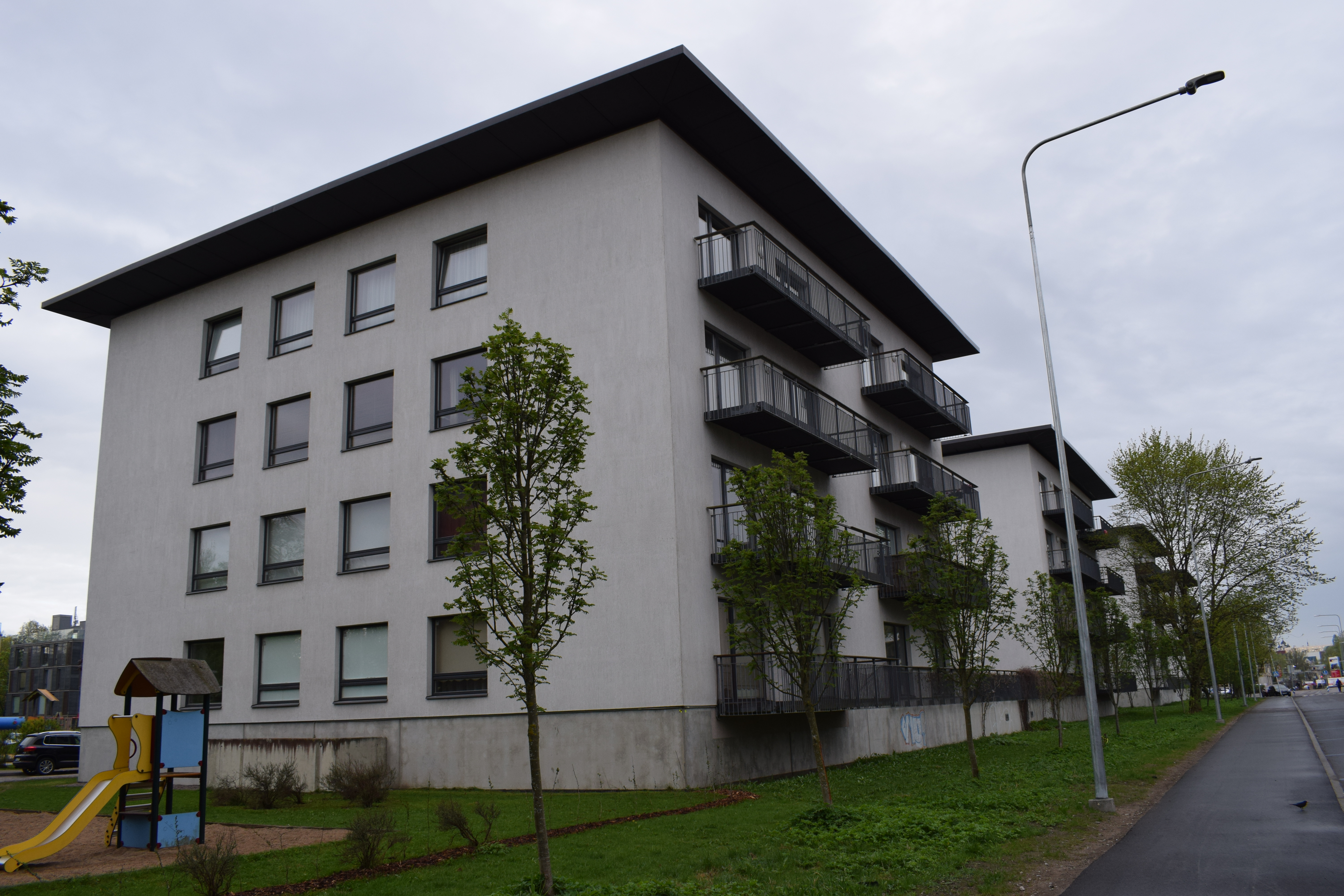 Liivaoja 10